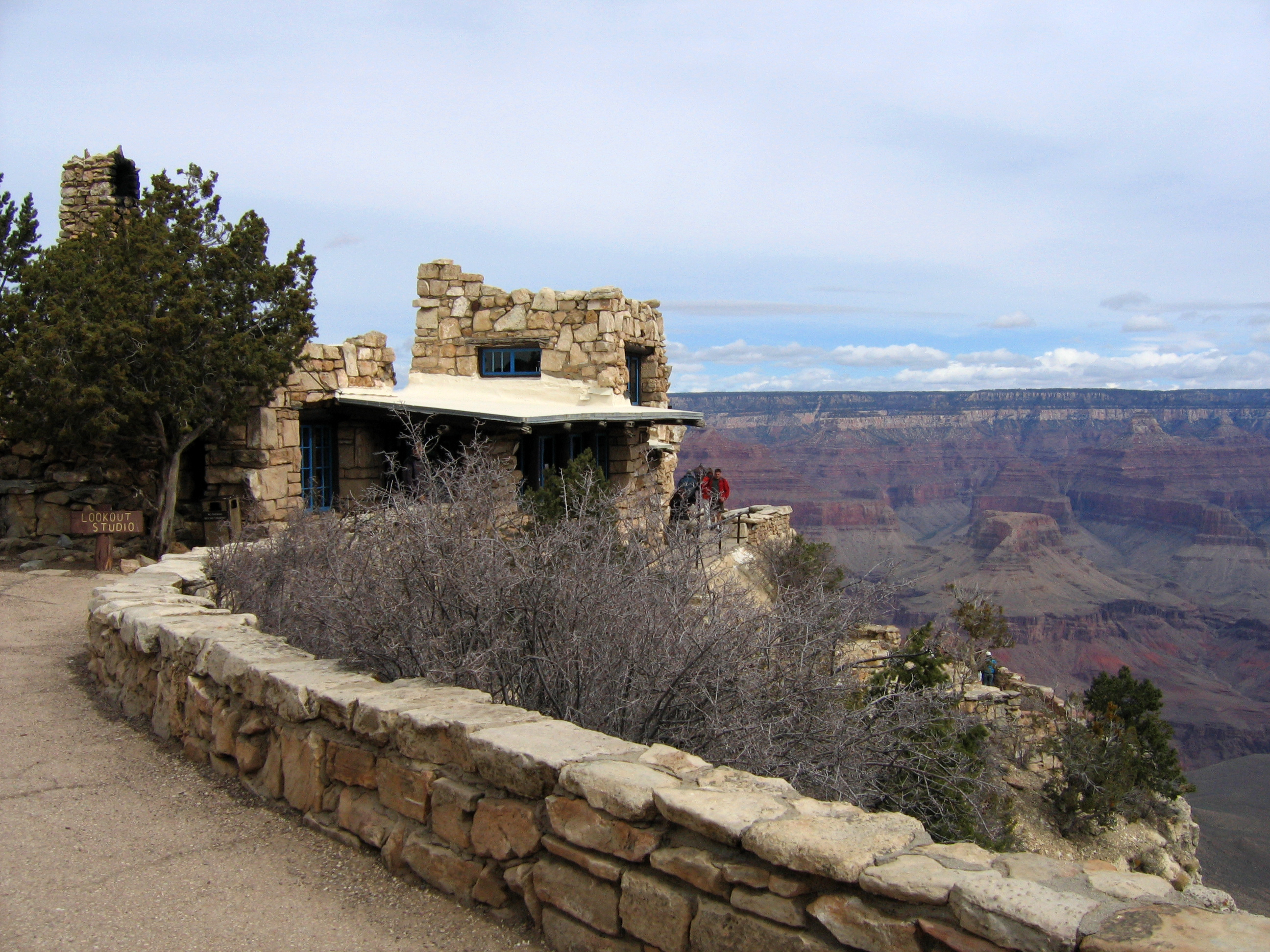 Lookout Studio, Grand Canyon National Park, Arizona. 1914 building designed by Mary Colter.